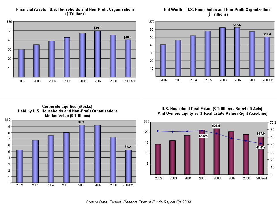 Economic crisis impact on key U.S. wealth variables Contents 1 Interpreting the Chart 2 Reflist 3 Licensing 4 Original upload log Interpreting the Chart Various measures of U.S. Household wealth have declined significantly since the start of the crisis in 2006-2007. This data is from the Federal Reserve Flow of Funds Report.[1] The corporate equities represent a subset of financial assets, while both financial assets and real estate assets are components of net worth (i.e., assets minus liabilities). See page 1 of the Fed report for any additional numbers. Peak amounts are indicated along with the most recent data. U.S. household and non-profit organization net worth has declined approximately $12.2 trillion dollars from its peak, with declines in equities and household wealth accounting for $8 trillion of this amount. I do not know if or how the variables are adjusted for inflation. They do not reflect dollar appreciation or depreciation relative to foreign currencies. Reflist ↑ Federal Reserve Flow of Funds Report Z1